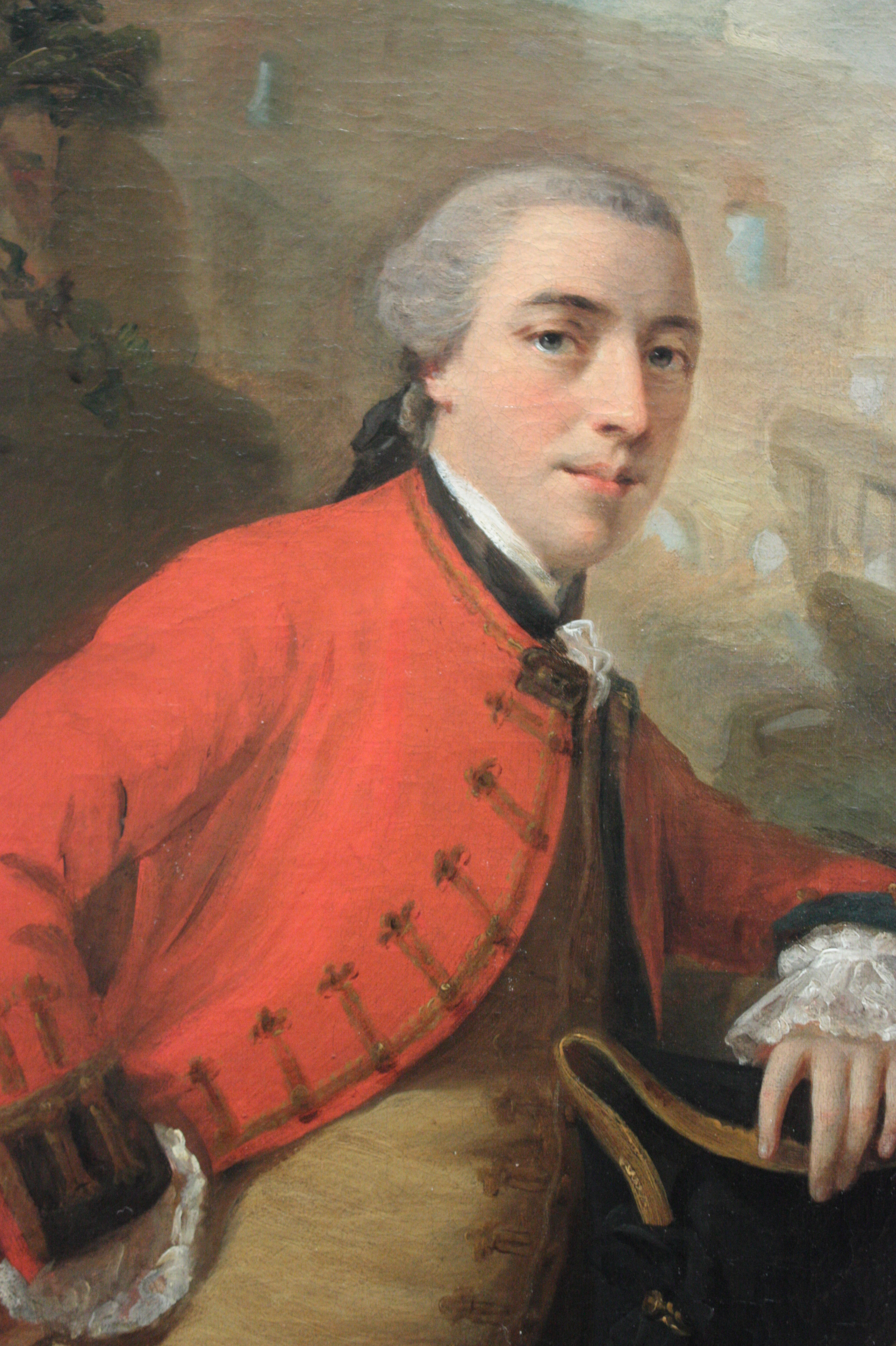 John Burgoyne, 1758, (after Allan Ramsay)